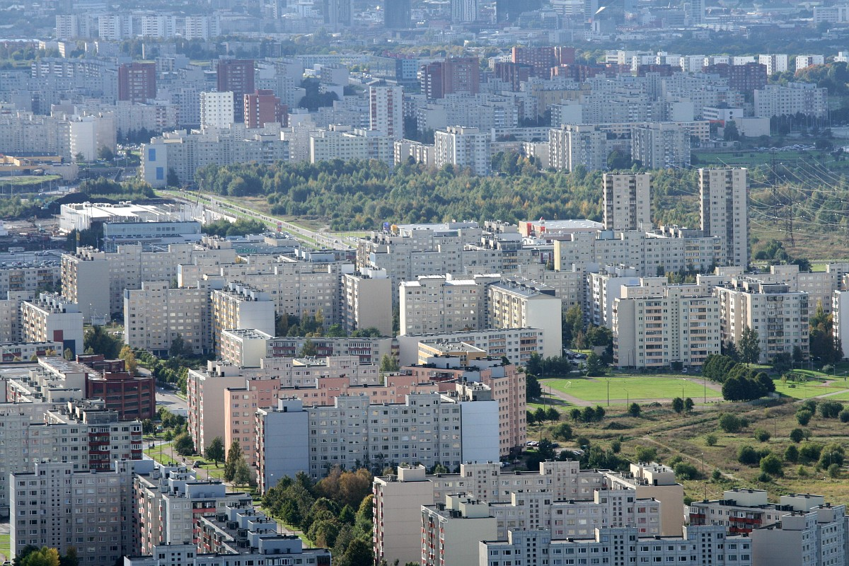 Mustakivi and Laagna sudistricts from altitude 260 meters